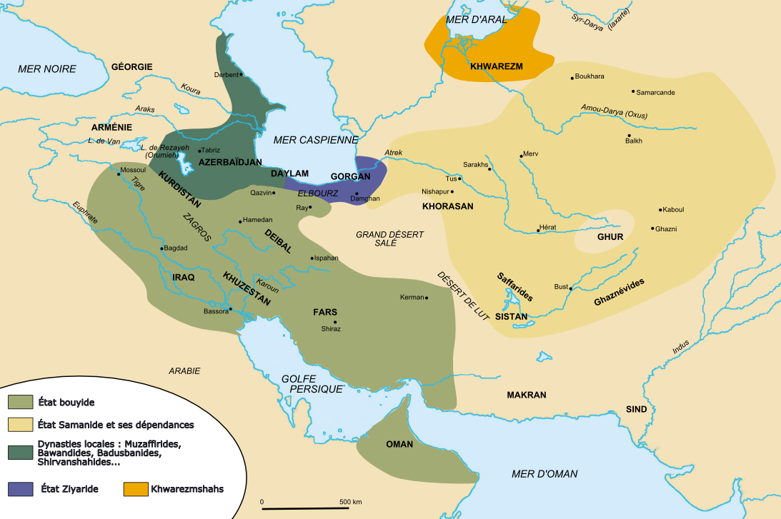 Date26 August 2006 (original upload date)SourceOwn workAuthorFabienkhan Licensing[edit]